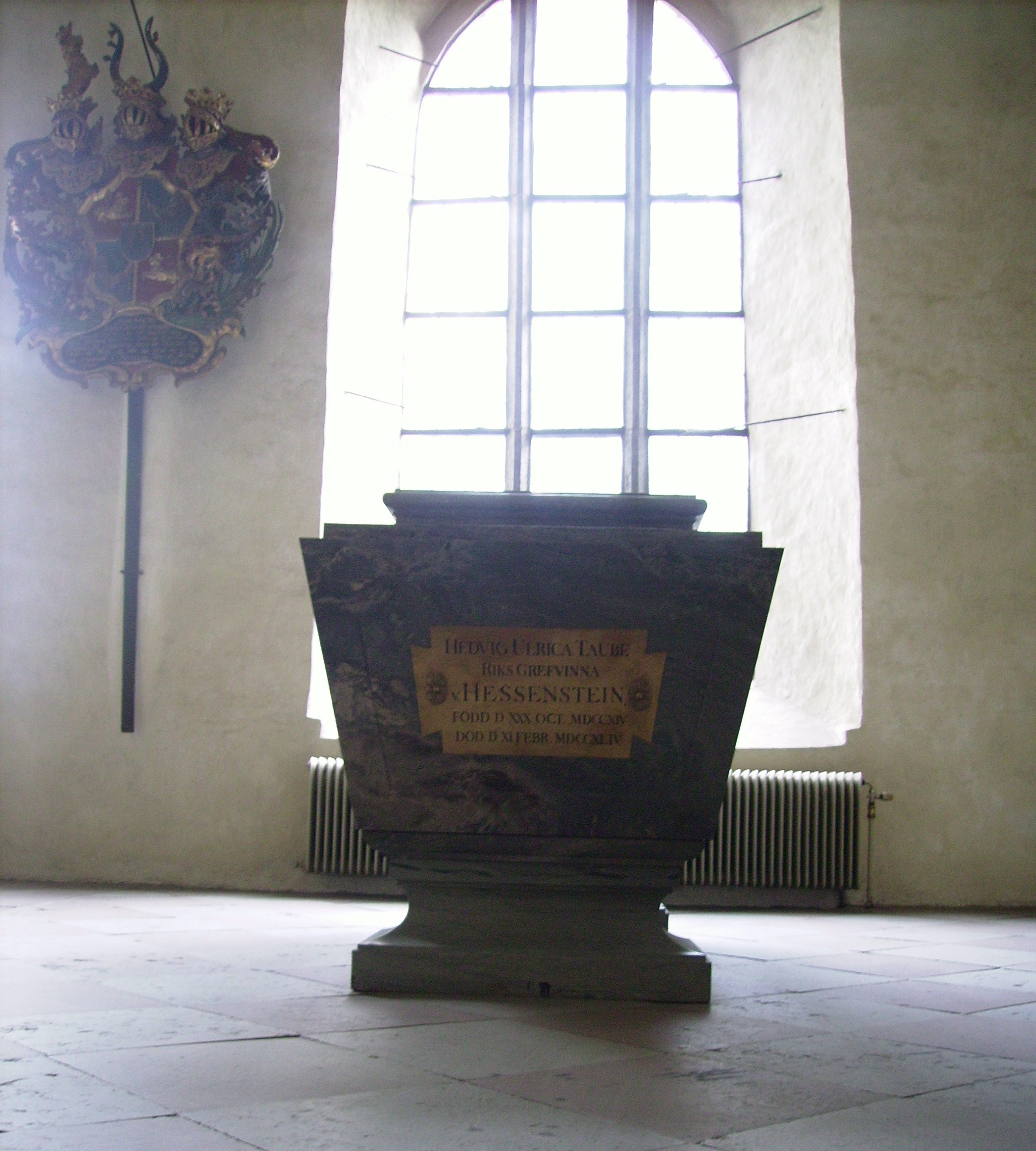 Picture of Hedvig Taube's grave at Strängnäs domkyrka in Sweden